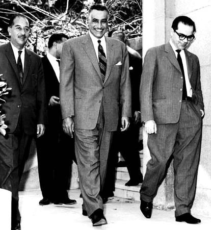 The heads of the Iraqi, Egyptian and Syrian delegations, respectively, during triparite unity talks in Cairo. From left to right: Iraqi Prime Minister Ahmed Hassan al-Bakr, Egyptian President Gamal Abdel Nasser and Syrian President Lu'ay al-Atassi